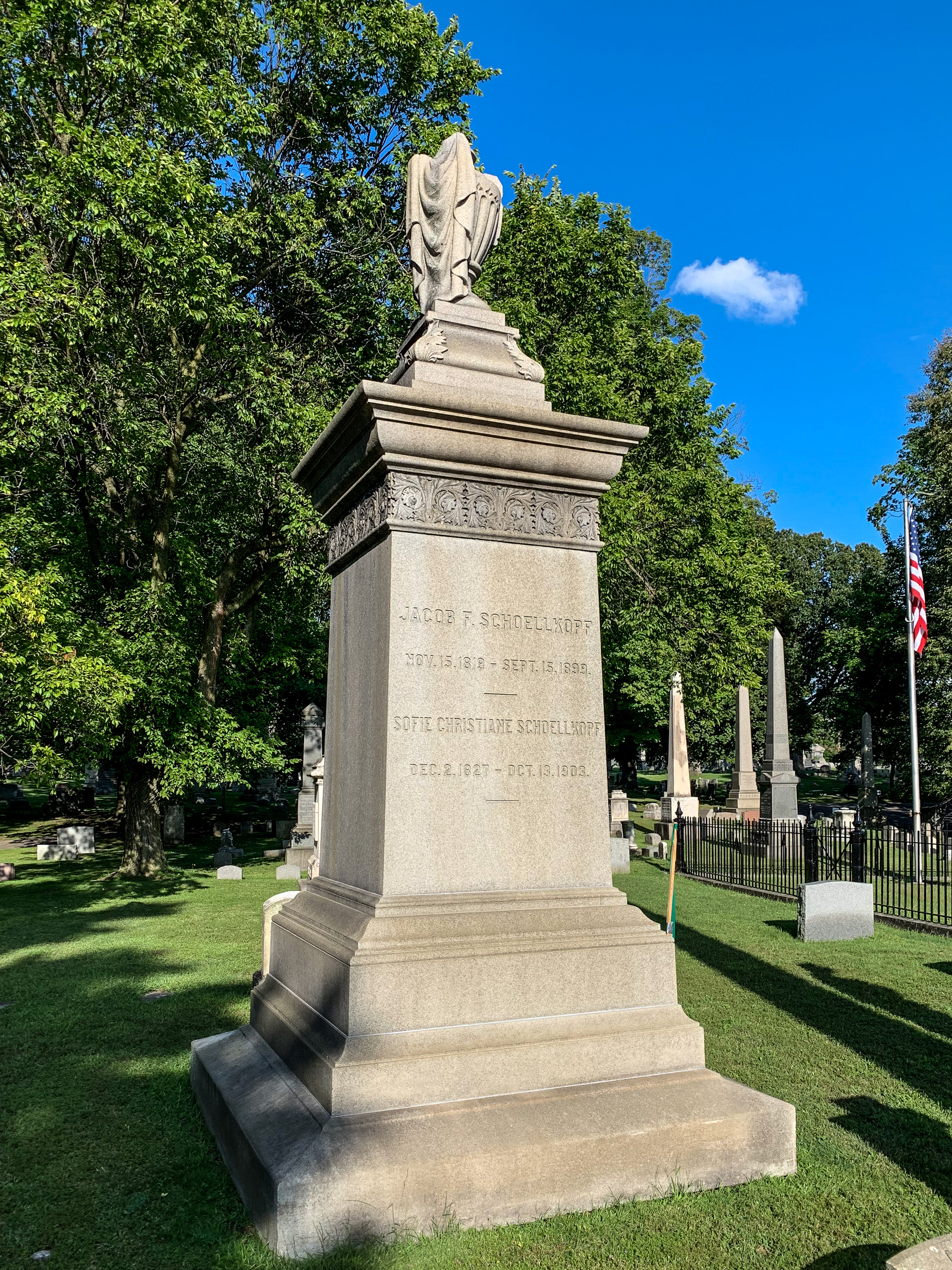 Grave of Jacob Schoellkopf, 1819-1899. Forest Lawn Cemetery, Buffalo New York